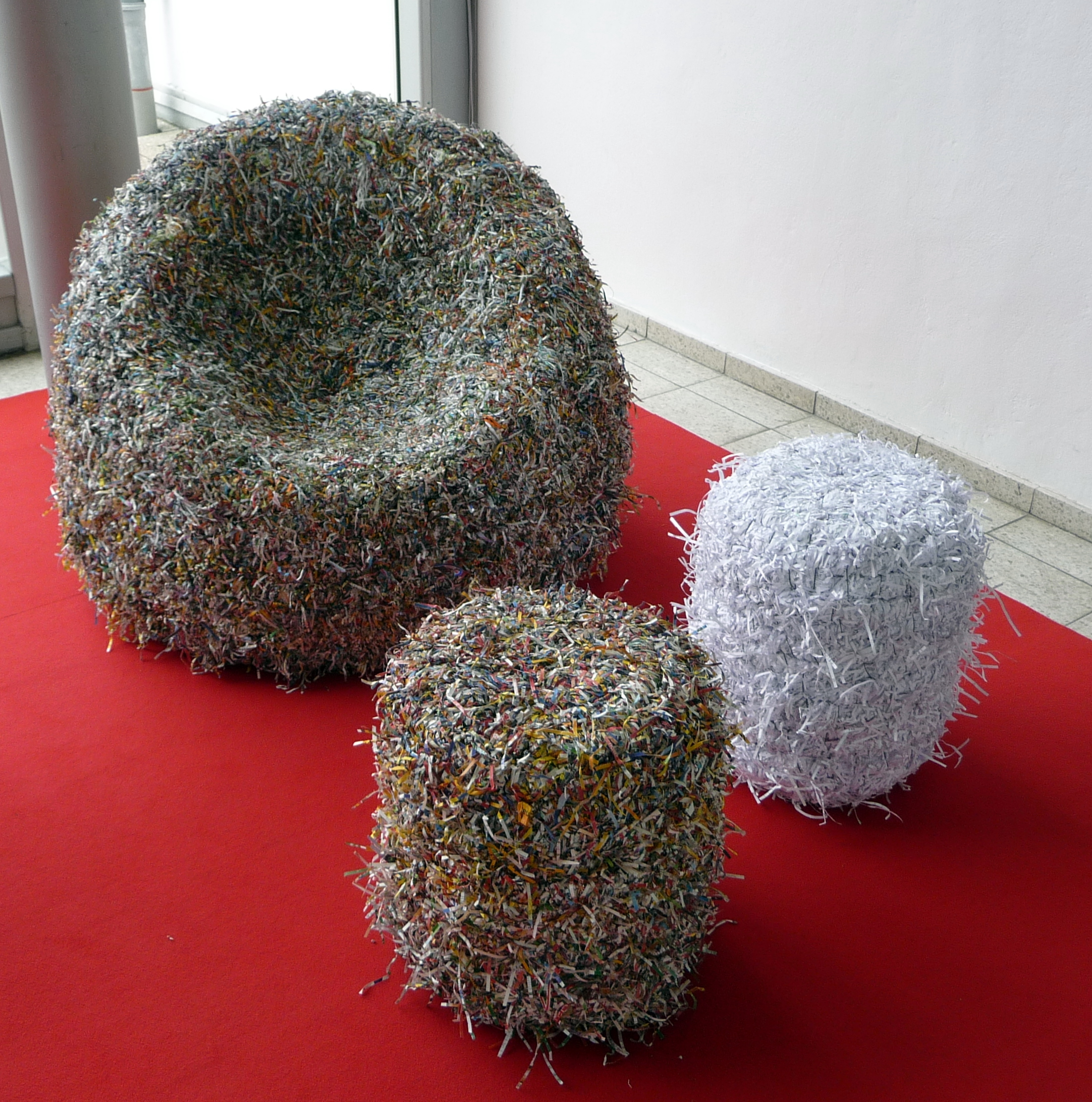 Student product, Building Fairs Brno 2011 -10-5-3-2◄►+2+3+5+10